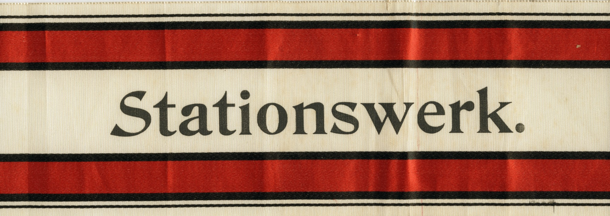 Brassard social work at Dutch railway stations